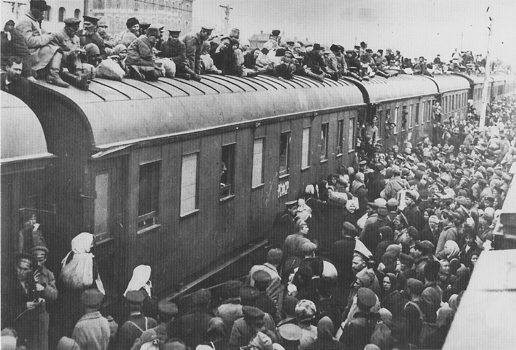 Refugees on a roof of a train in Ukrainian SSR during the famine period in the Soviet Union of 1932-1933.